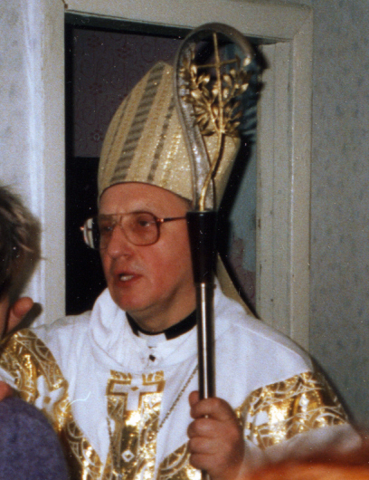 archibishop Tadeusz Kondrusiewicz, former head of Roman-Catholic Church in Russia. Part of File:Tadeusz Kondrusiewicz1.jpg